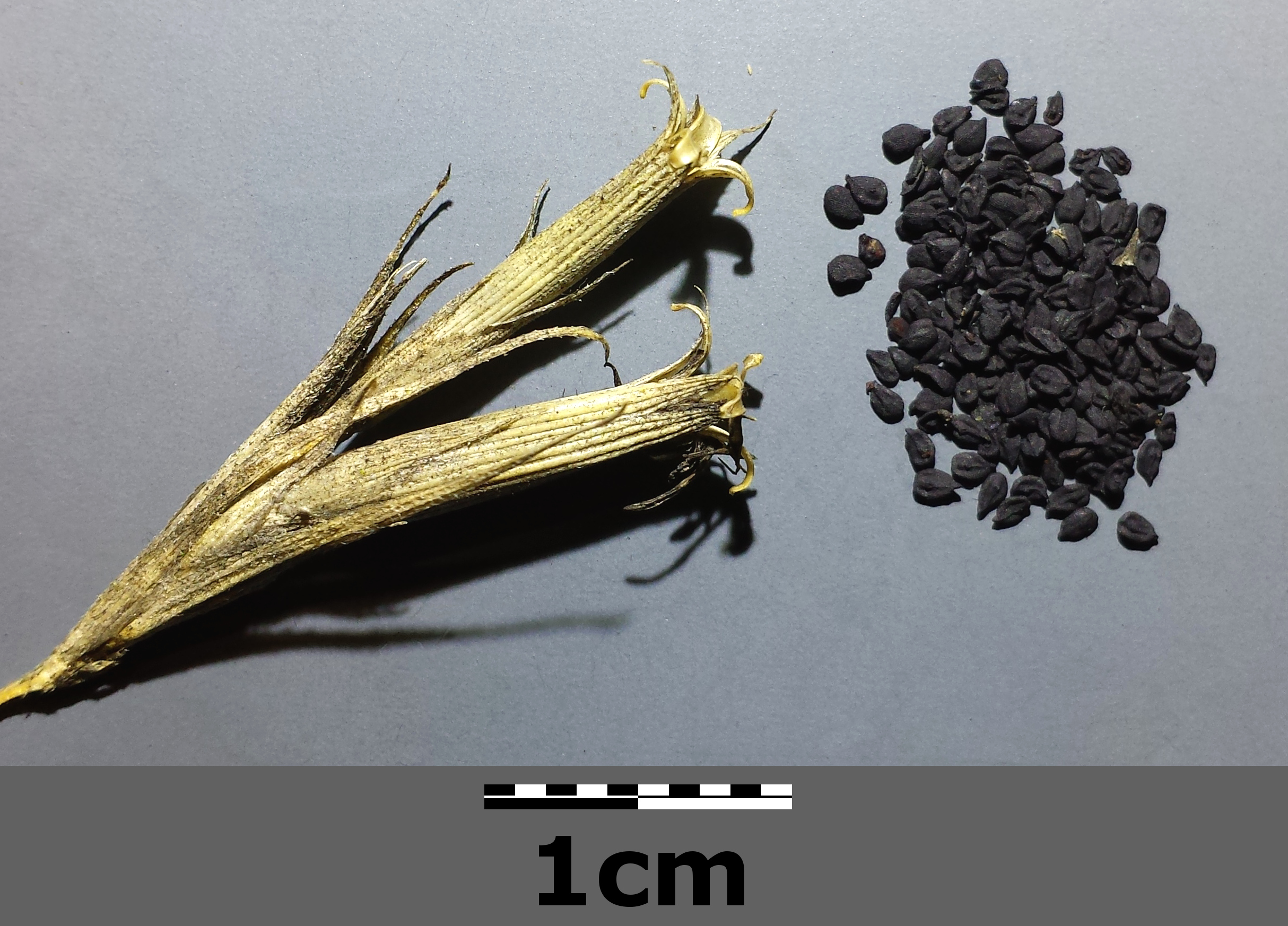 Capsules with seeds Taxonym: Dianthus armeria ss Fischer et al. EfÖLS 2008 ISBN 978-3-85474-187-9 Location: Rohrwald, district Korneuburg, Lower Austria - ca. 275 m a.s.l. Habitat: deciduous forest/wayside